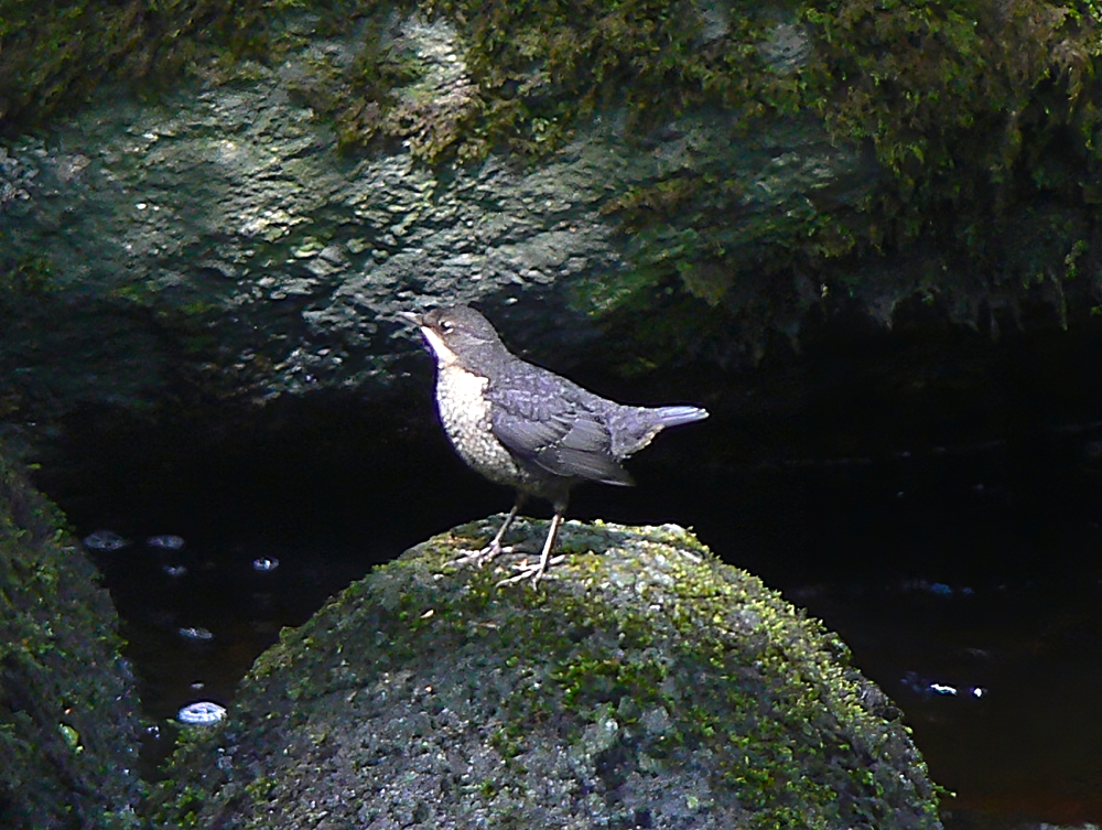 Taken near Becky Falls, Devonl More on: UK wildlife blog